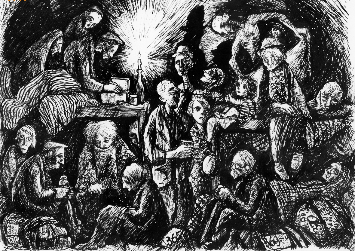 Drawing from the Theresienstadt ghetto